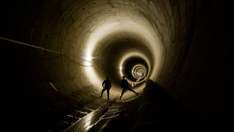 Storm drain tunnel under construction.